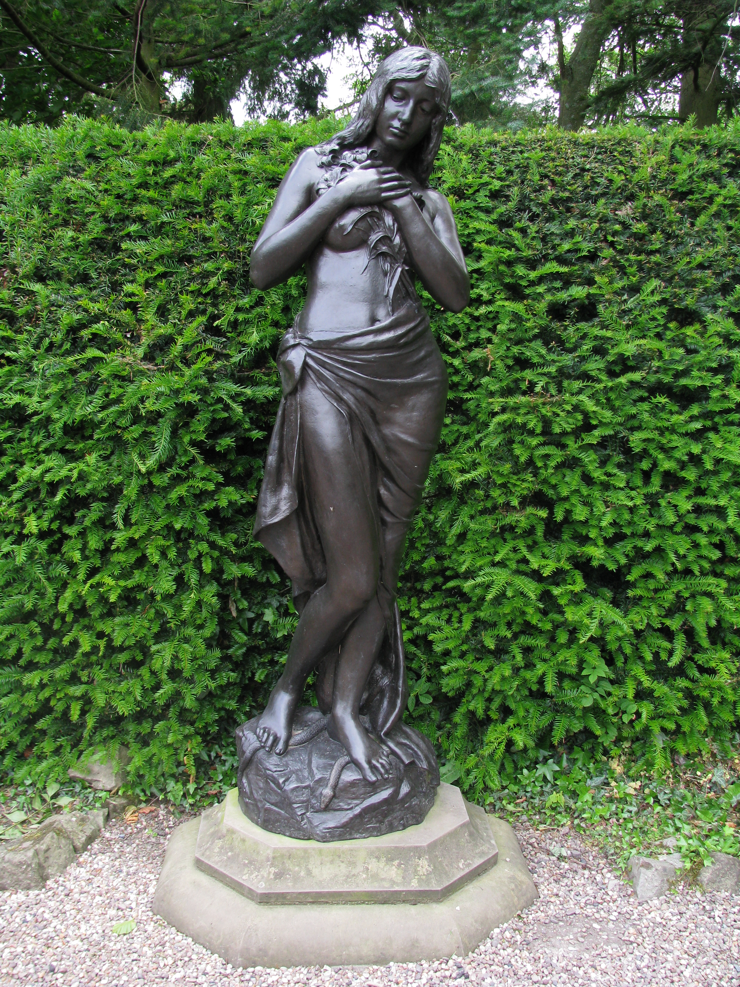 Statue in the garden of Chirk Castle, Wales, UK.